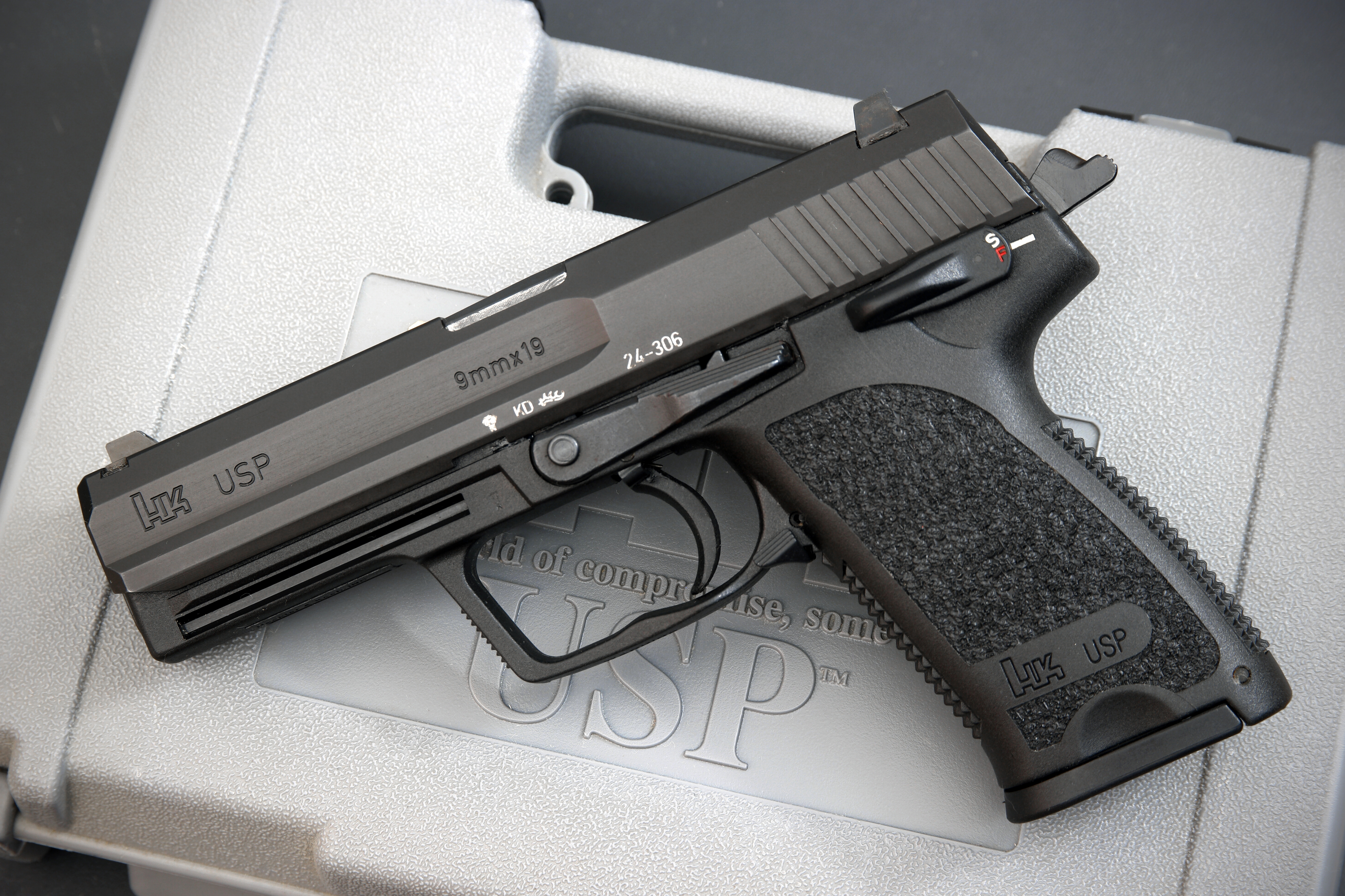 First-year USP 9mm